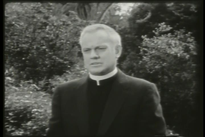 A scene from The Screaming Skull, a 1958 film directed by Alex Nicol.